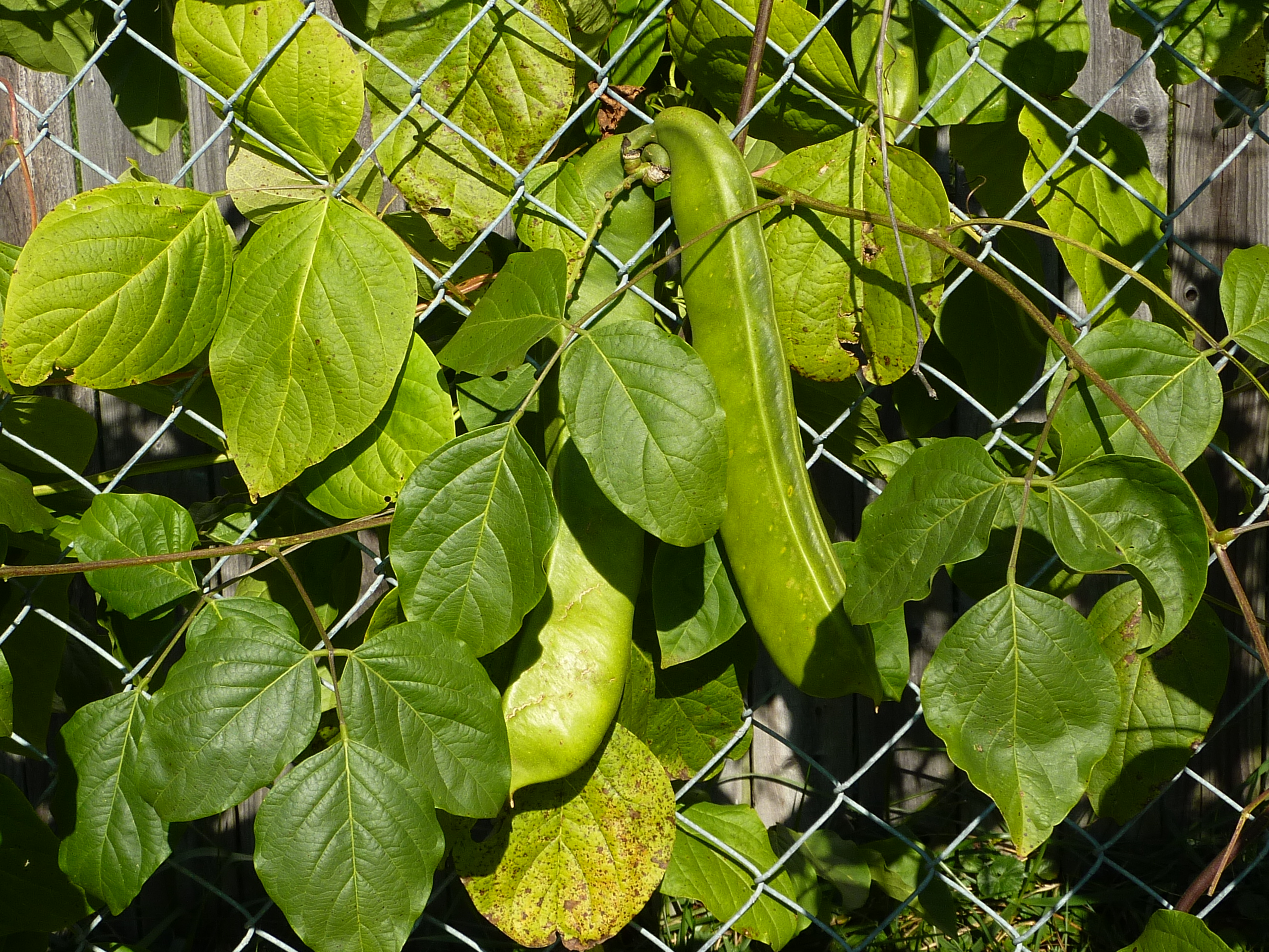 Large pods of a Chinese bean plant (known as dao dou, although it's a fairly generic name), grown in Bloomington, Indiana. Apparently, this is Canavalia gladiata ("sowrd bean")